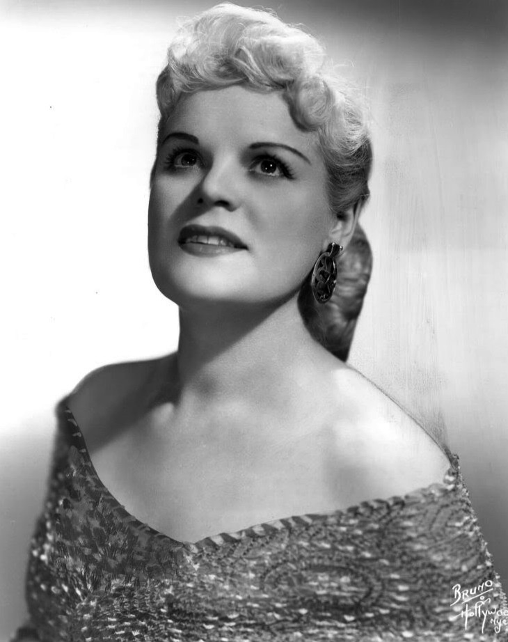 Photo of vocalist Frances Yeend.